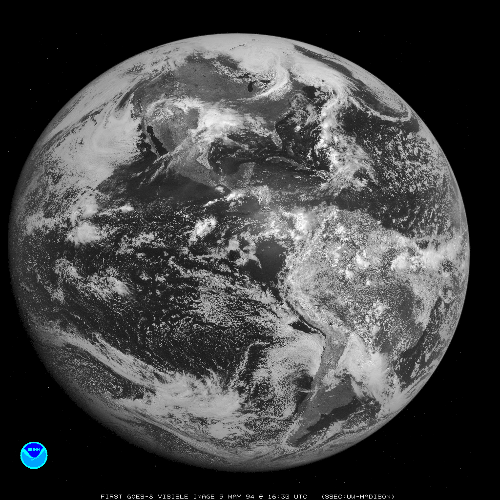 The first visible images on May 9th.